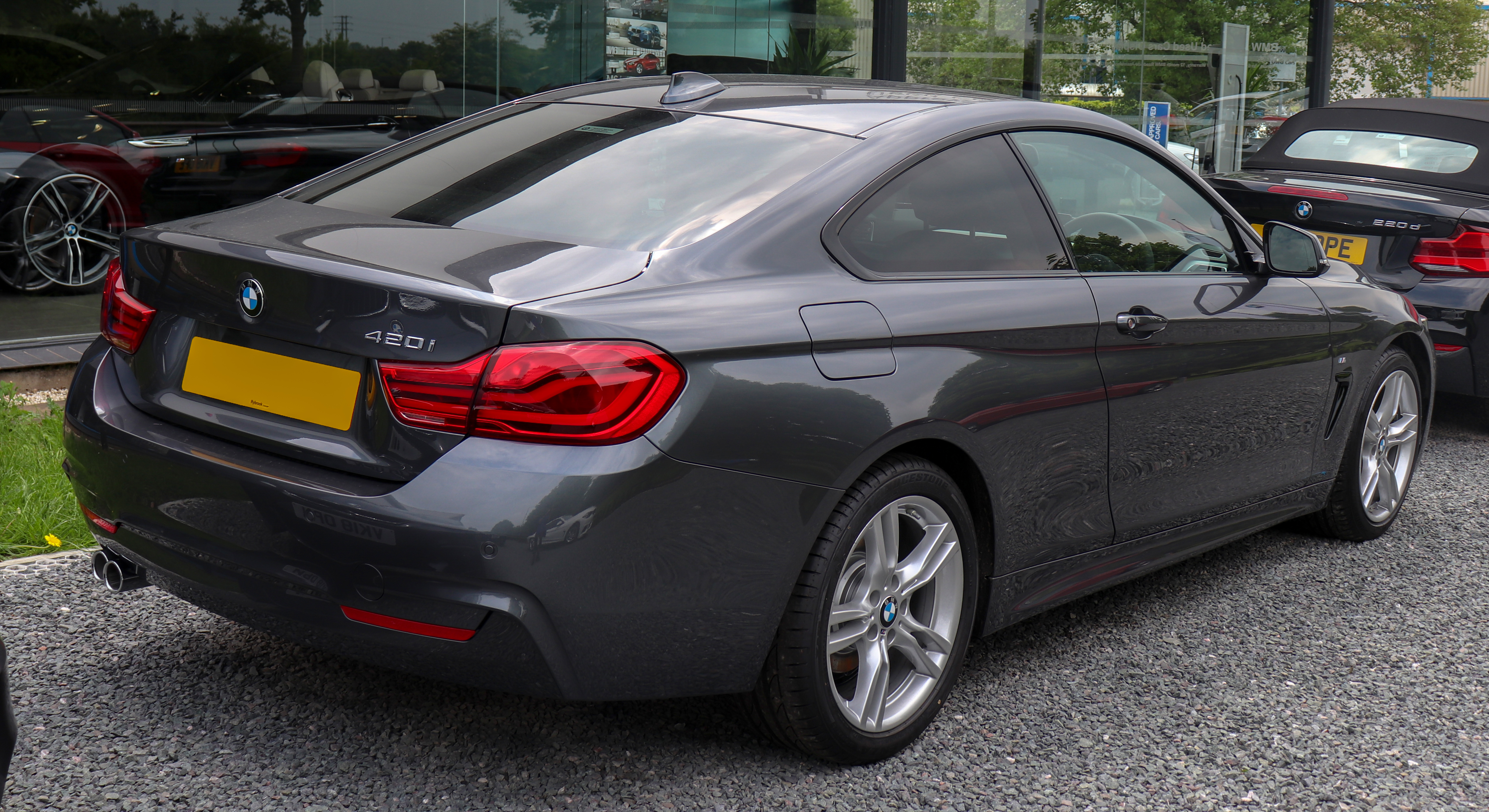 2018 BMW 420i M Sport Automatic 2.0 Rear (1) Taken in Rybrook BMW Warwick